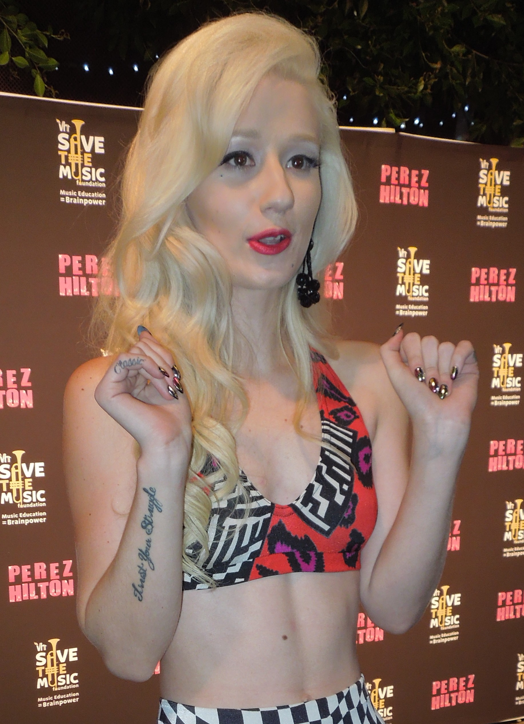 Australian rapper Iggy Azalea strikes a pose as she enters The Belasco before her performance. (Sarah Mickelson/ Neon Tommy)